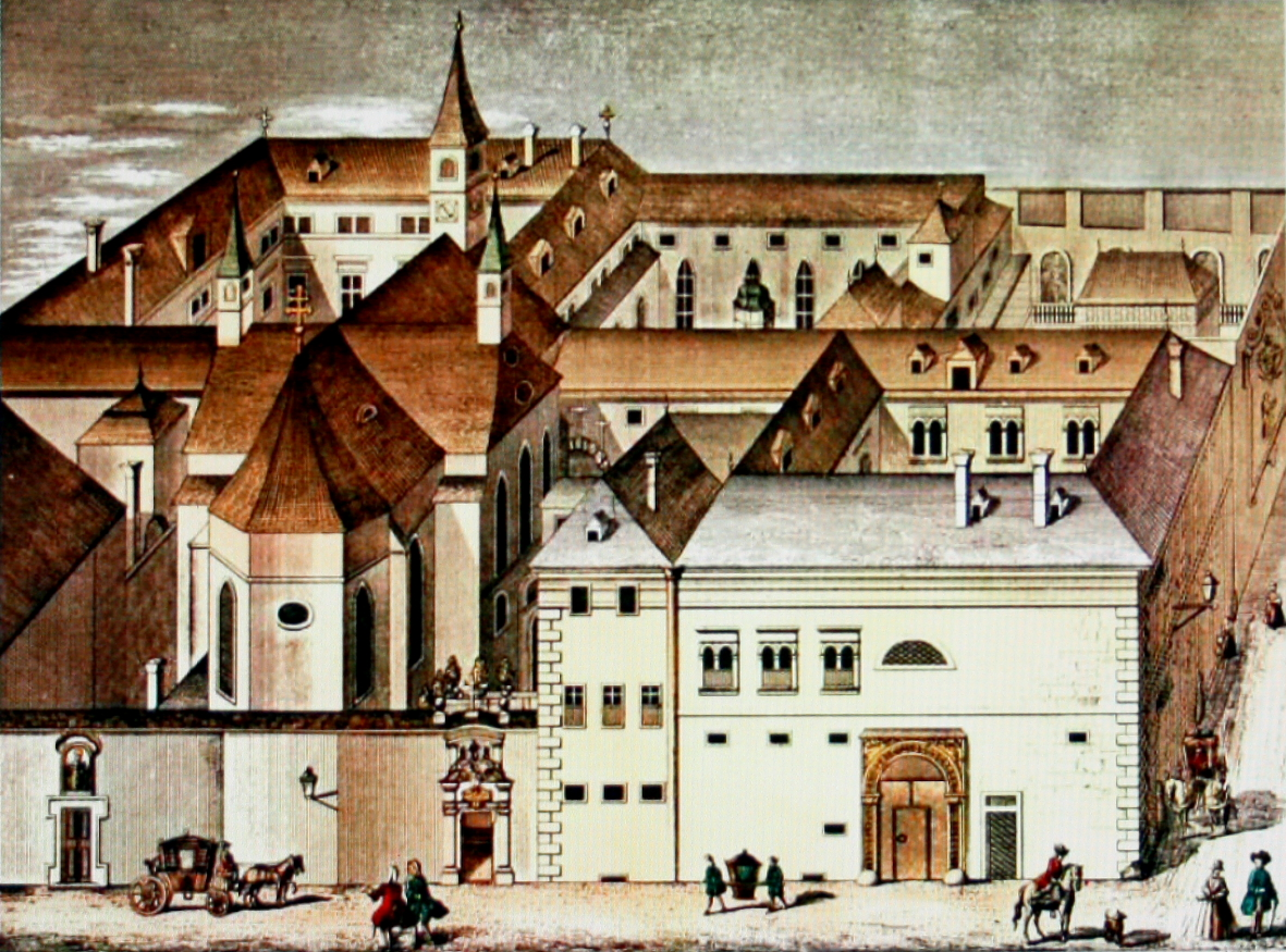 The former monastery Saint Mary Queen of Angels in Vienna. After a bird's-eye view of 1740